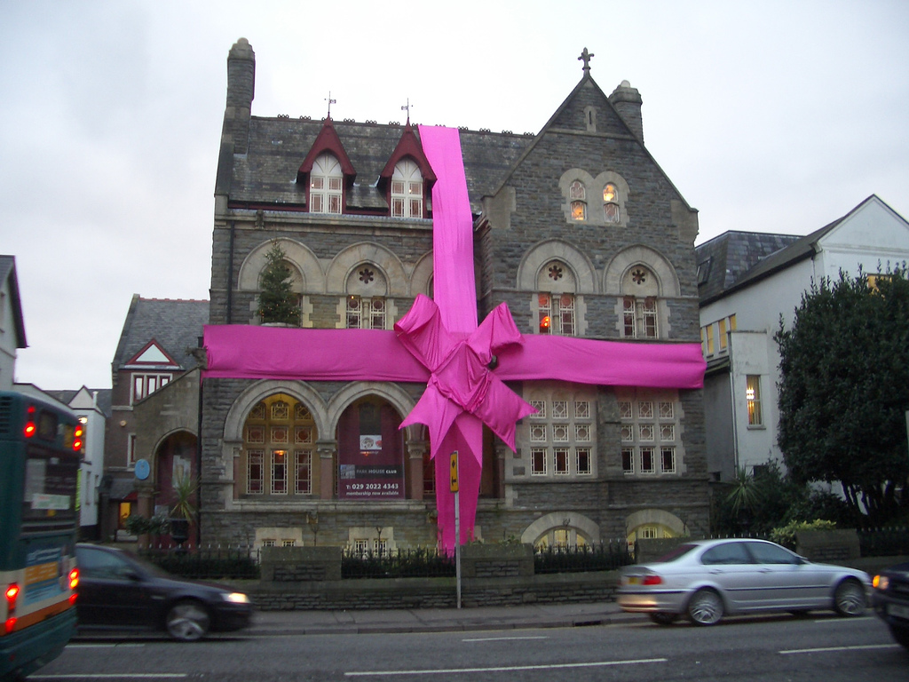 The Park House Club in Cardiff, wrapped as a gift